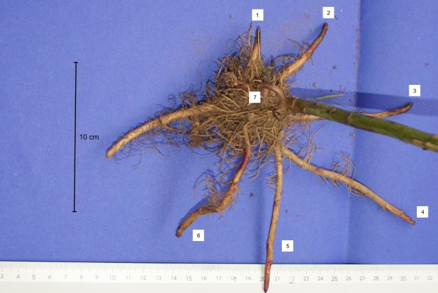 Solidago gigantea